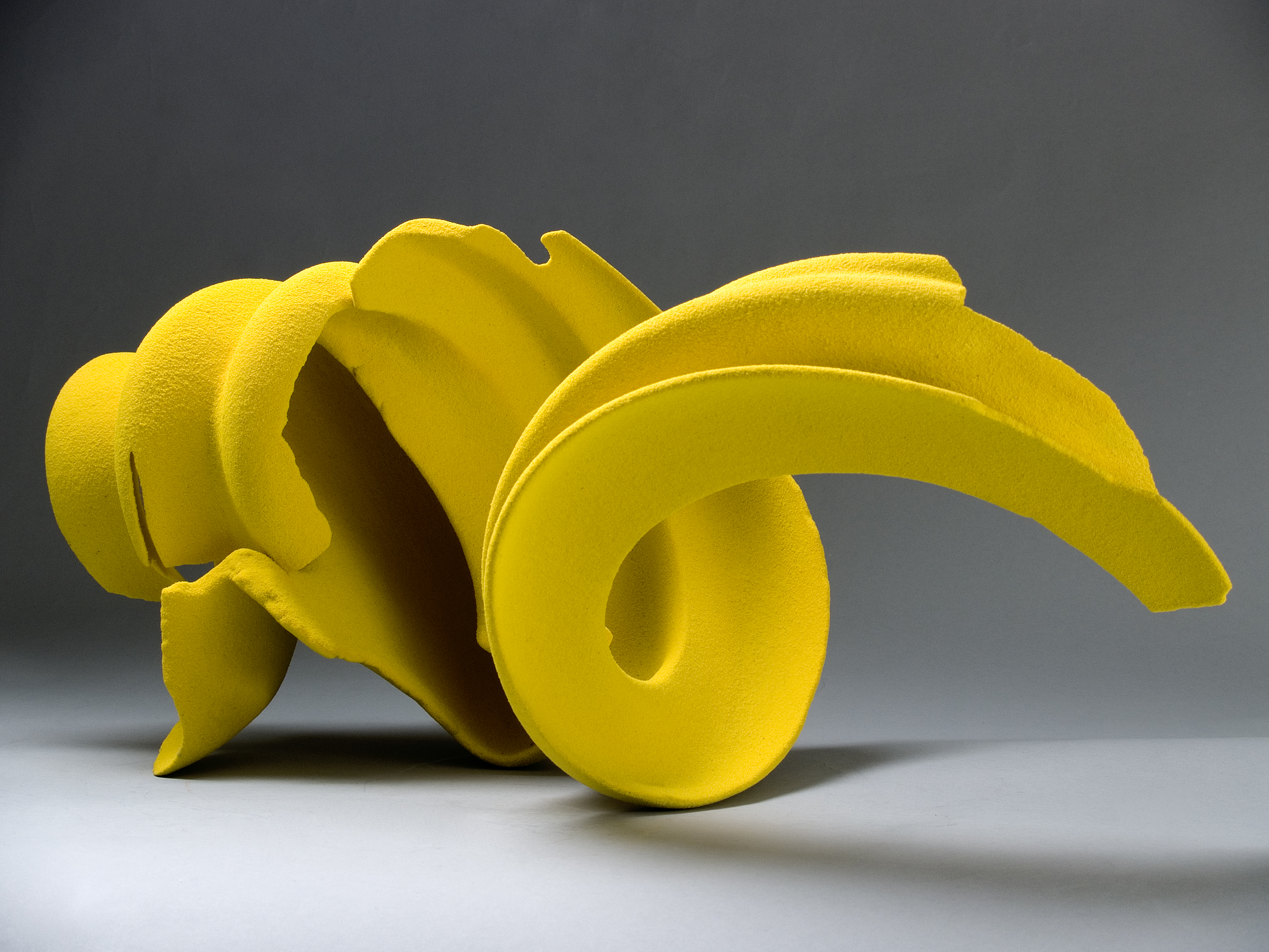 Sculpture called "Galaxy" by Barbara Nanning